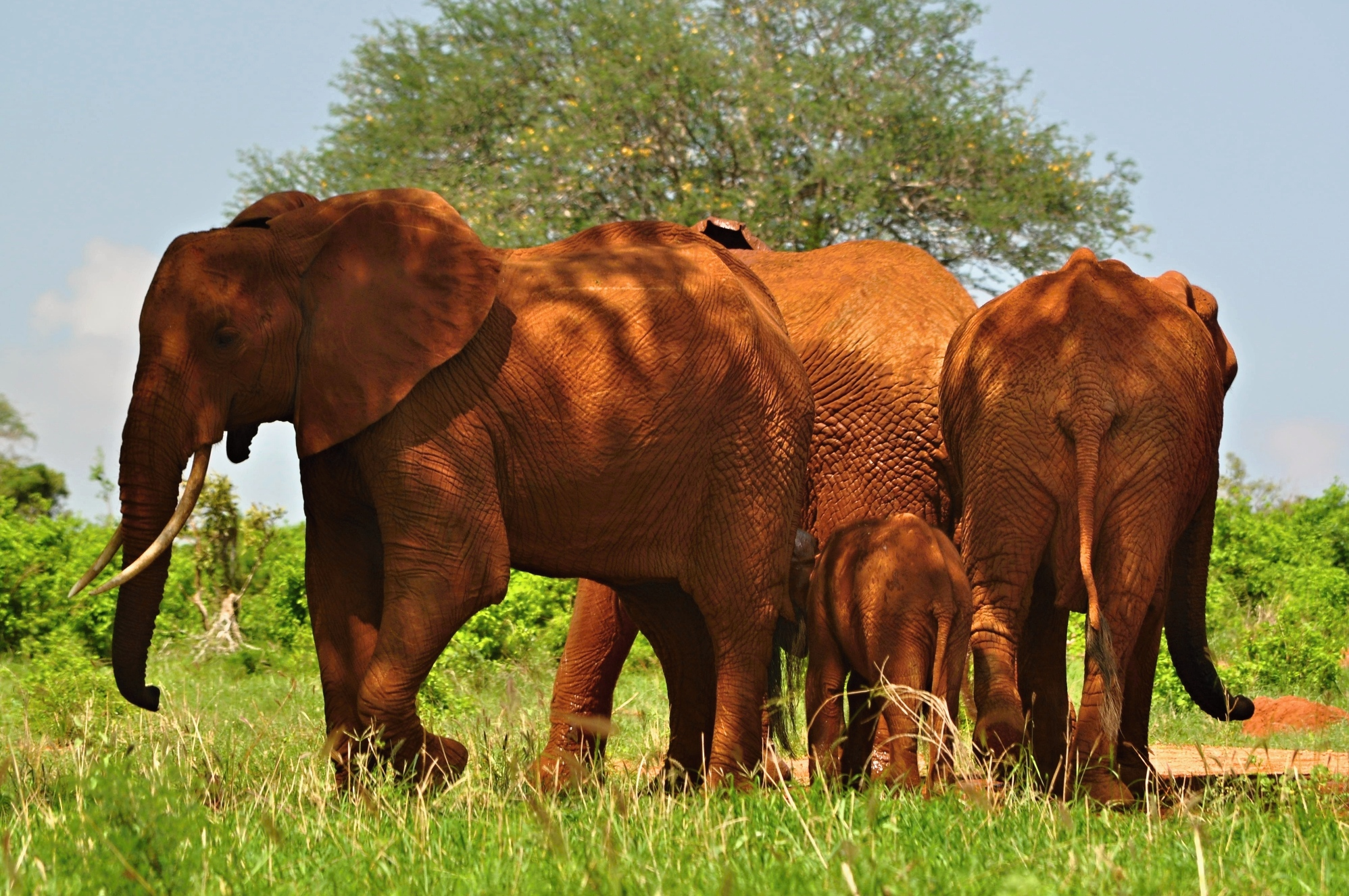 A family of african elephants covered with red dust. Tsavo East National Park, Kenya